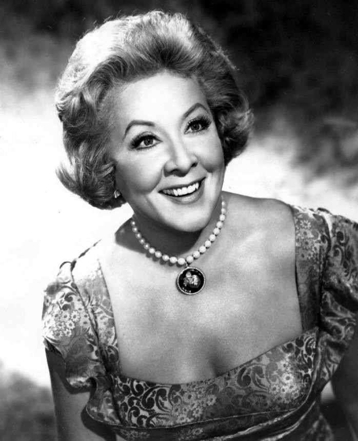 Publicity photo of Vivian Vance from "The Lucy Show", marking her 13th year as Lucille Ball's sidekick. Vance began working with Ball in 1951 on I Love Lucy.